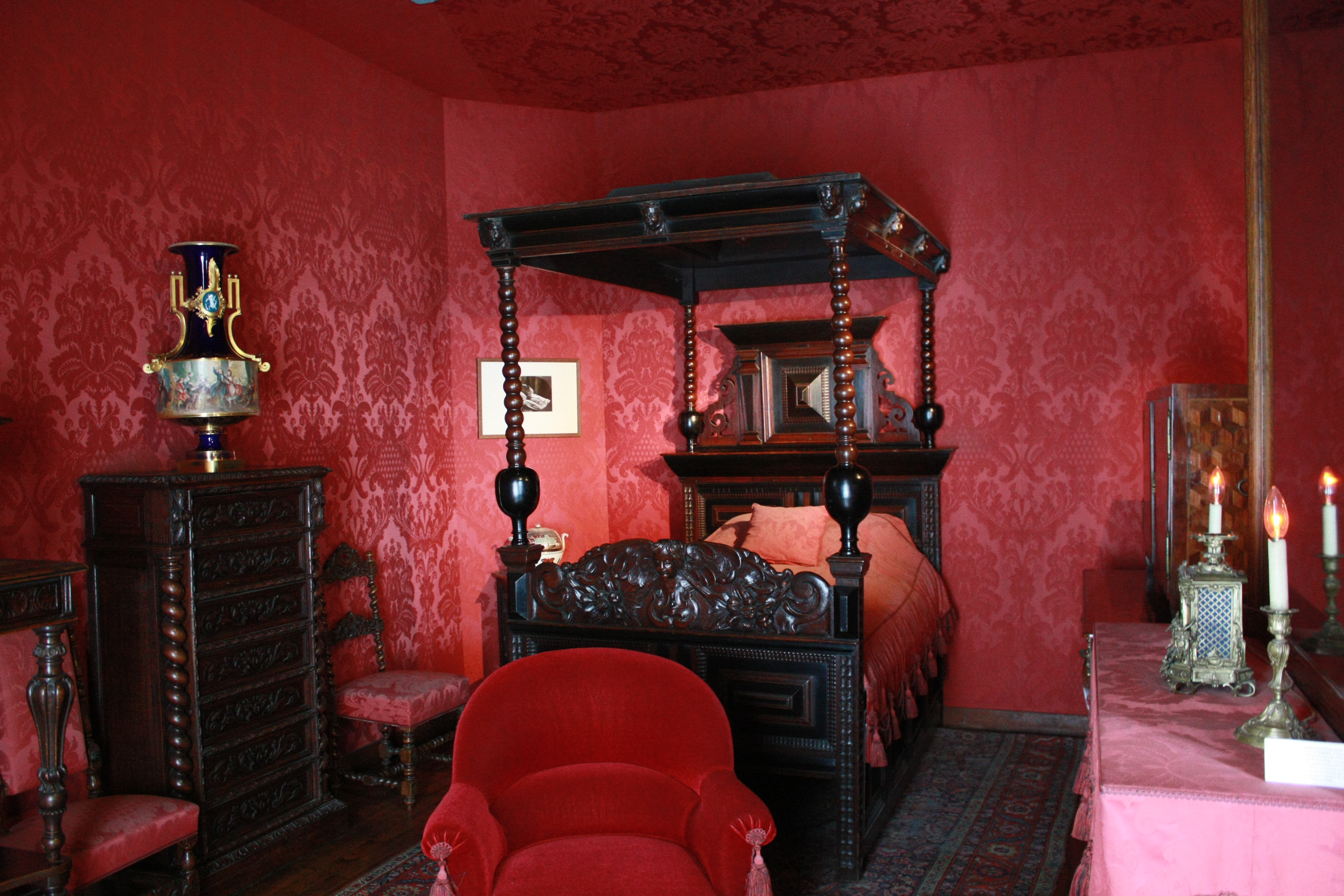 Bedroom where Victor Hugo lived until he died.